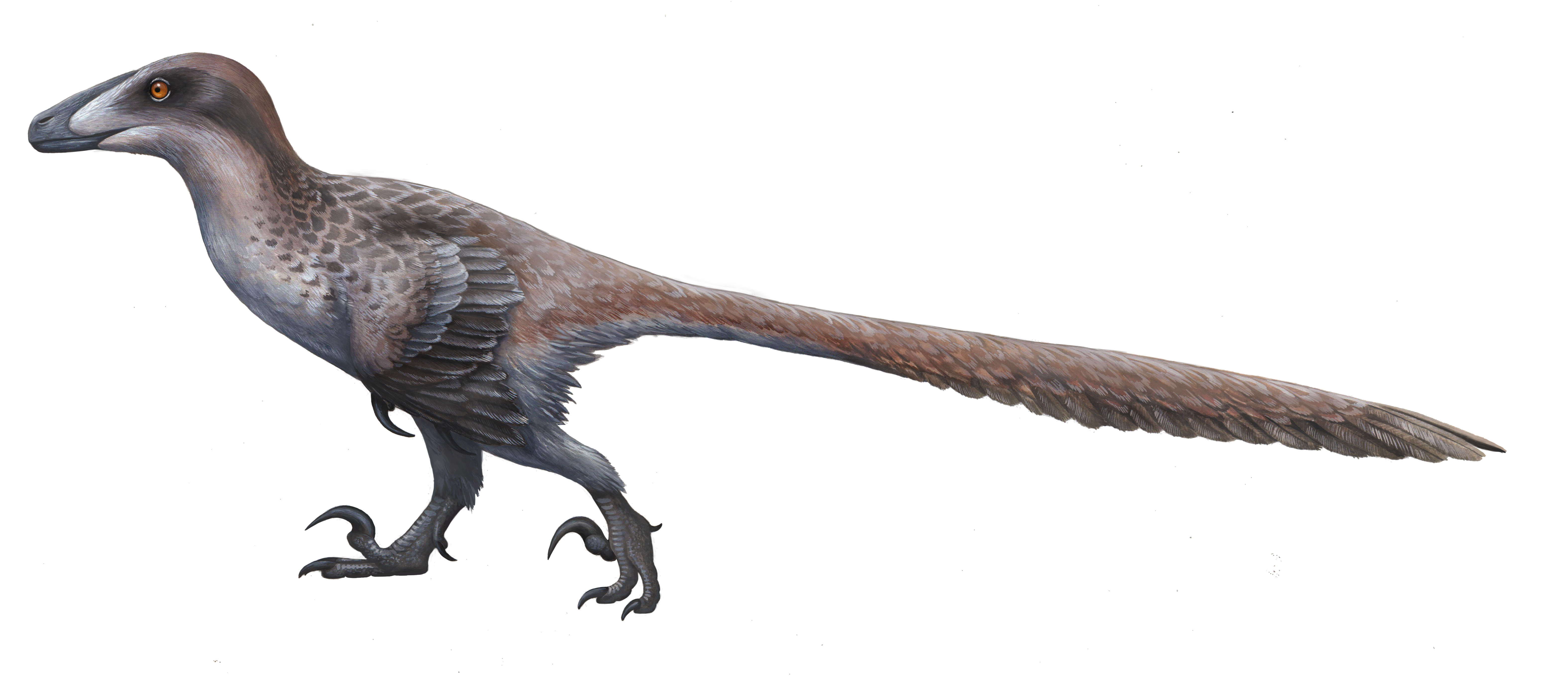 Reconstruction of dromaeosaur dinosaur Deinonychus antirrhopus; proportions based on Scott Hartman's skeletal diagram.